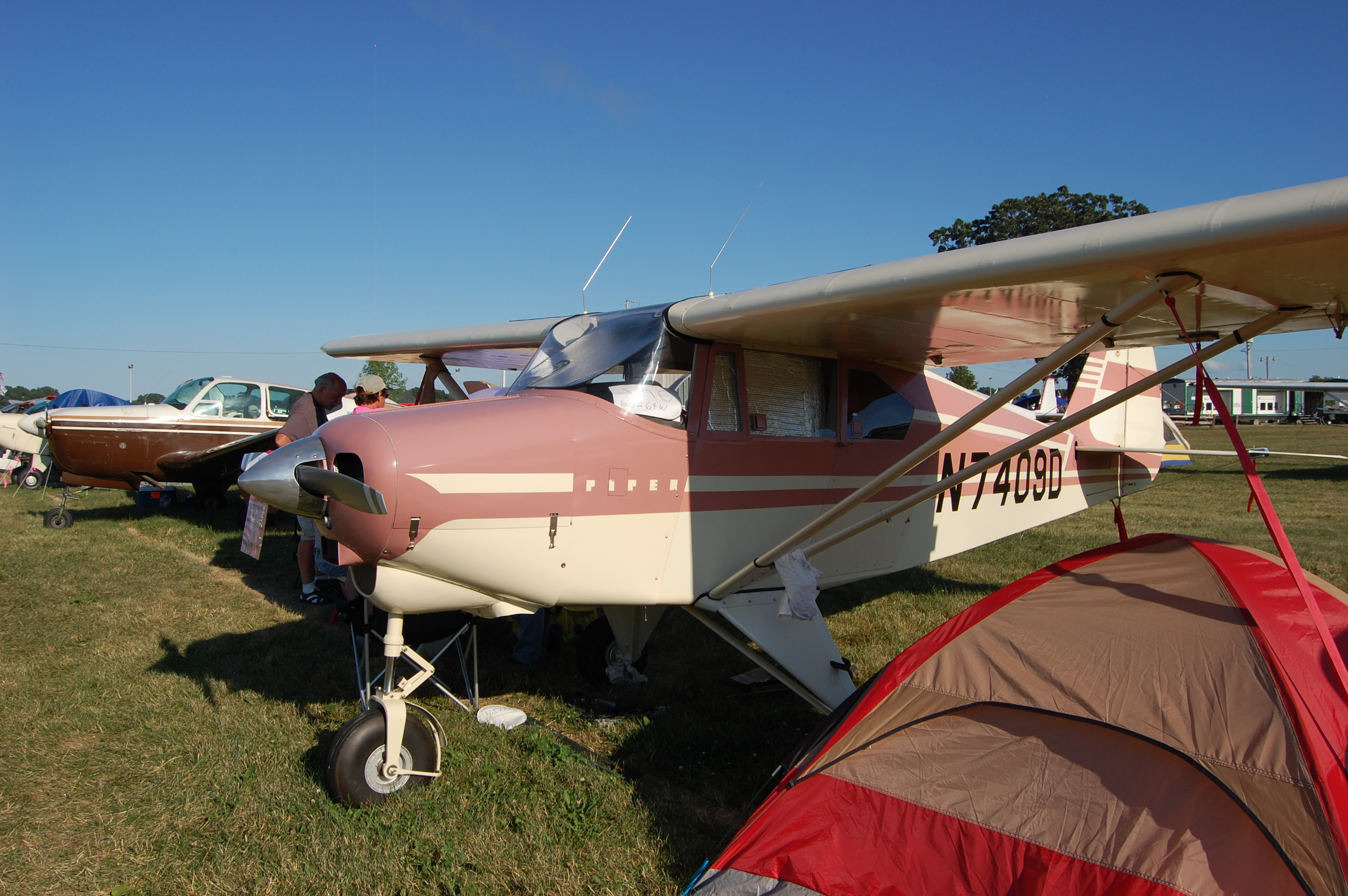 A Piper Tri-Pacer appearing fully restored in a factory original scheme and colors. This picture was taken at EAA AirVenture 2011